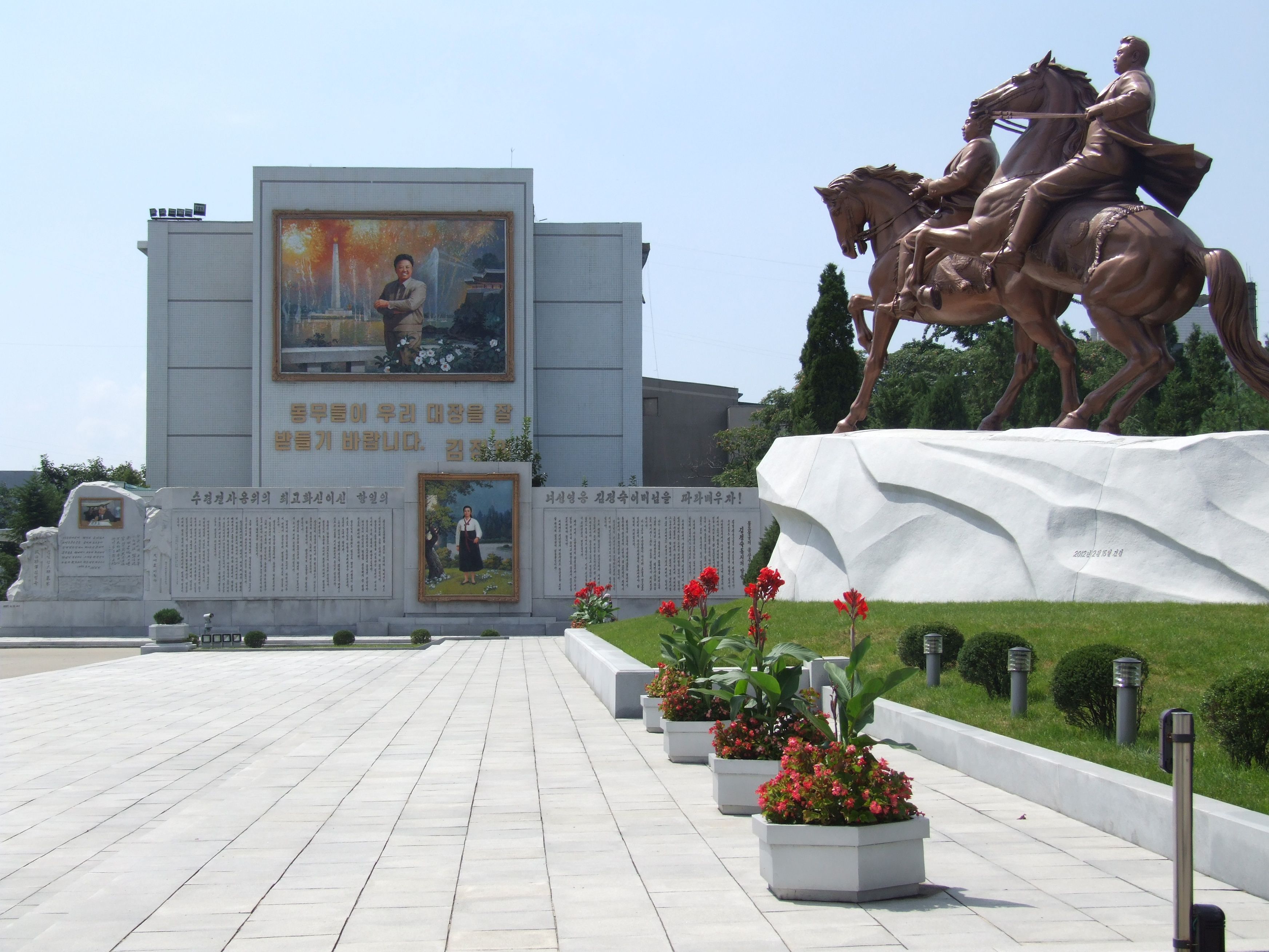 Picture of Kim Jong-il and Kim Jong-suk (left) and a statue of Kim Jong-il and Kim Il-sung on horseback (right) at the Mansudae Art Studio